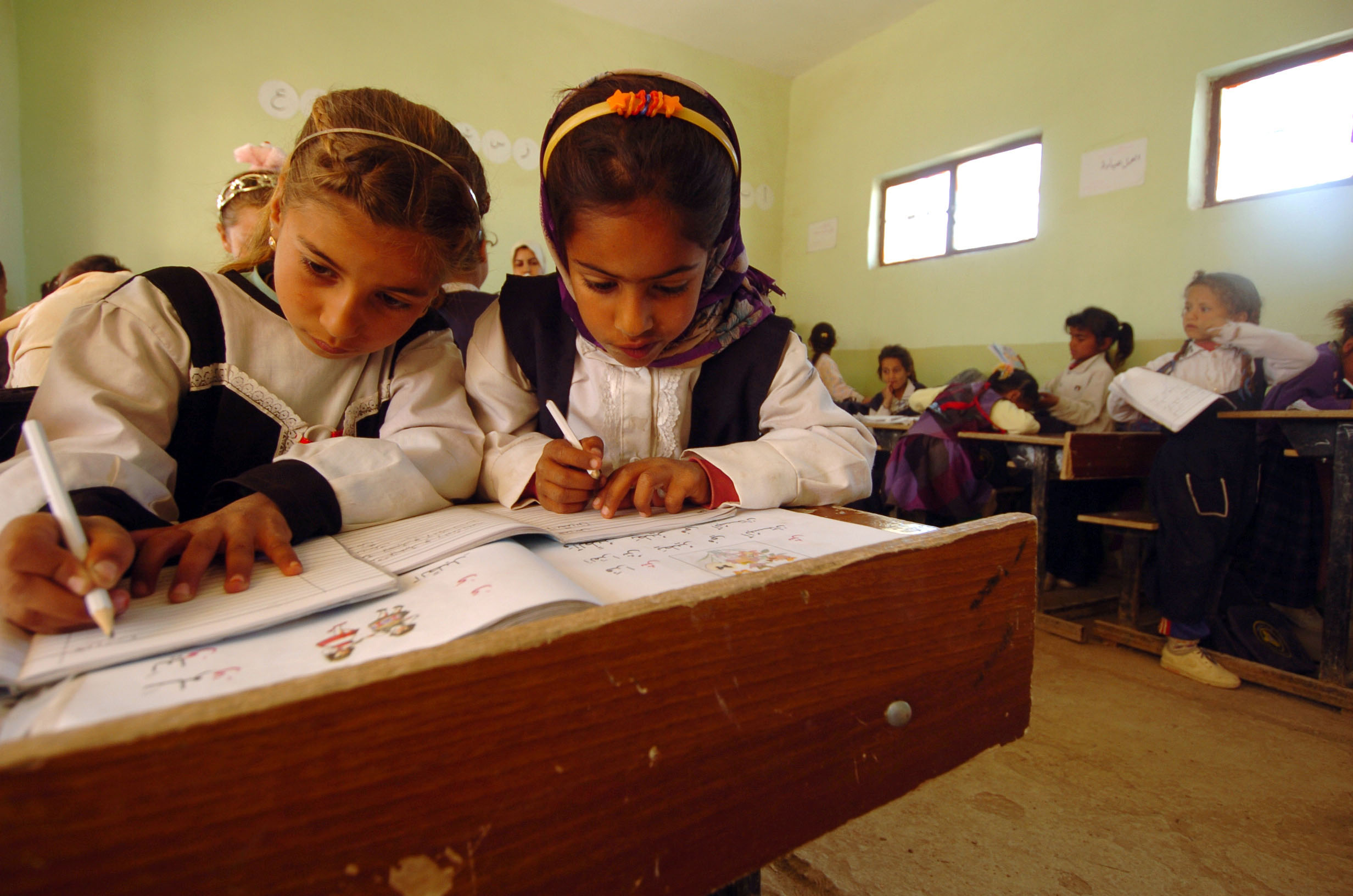 Babil Province, Iraq (Mar. 22, 2005) - Iraqi schoolchildren study grammar as U.S. Army Soldiers assigned to the 155th Brigade Combat Team (BCT) from Tupelo, Miss., deliver school supplies to Al Mutnba Primary School located near Camp Kalsu, in the Babil Province, Iraq. The 155th BCT Chaplain, Lt. Col. Tommy Fuller, initiated the Adopt a School Program aboard Camp Kalsu where different units choose a local school and try to connect them with a U.S. school to help with supplies and start a pen pal program. U.S. Navy photo by Photographer's Mate 1st Class Brien Aho (RELEASED)